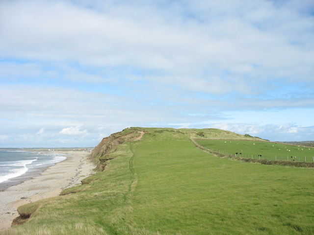 Dinas Dinlle Fort from the South The photograph shows clearly the extent of the erosion on the seaward side of the fort. The hill is composed of easily eroded boulder clay.